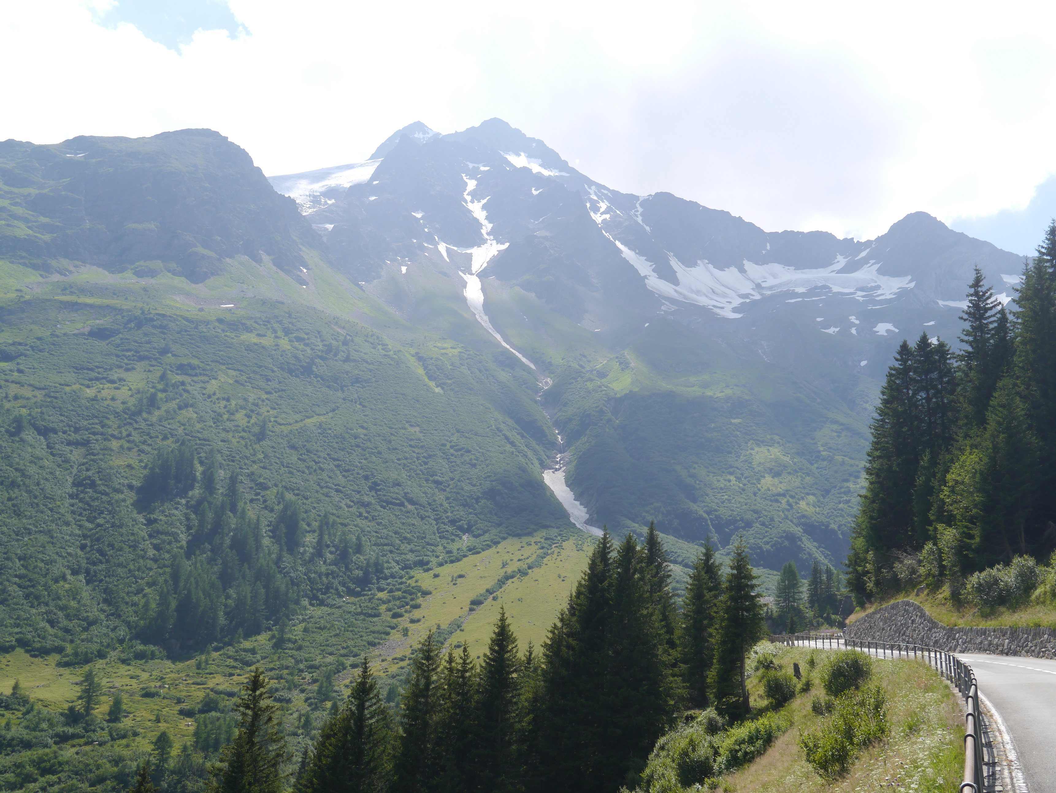 underway on Susten pass, Cantons of Bern & Uri, Switzerland